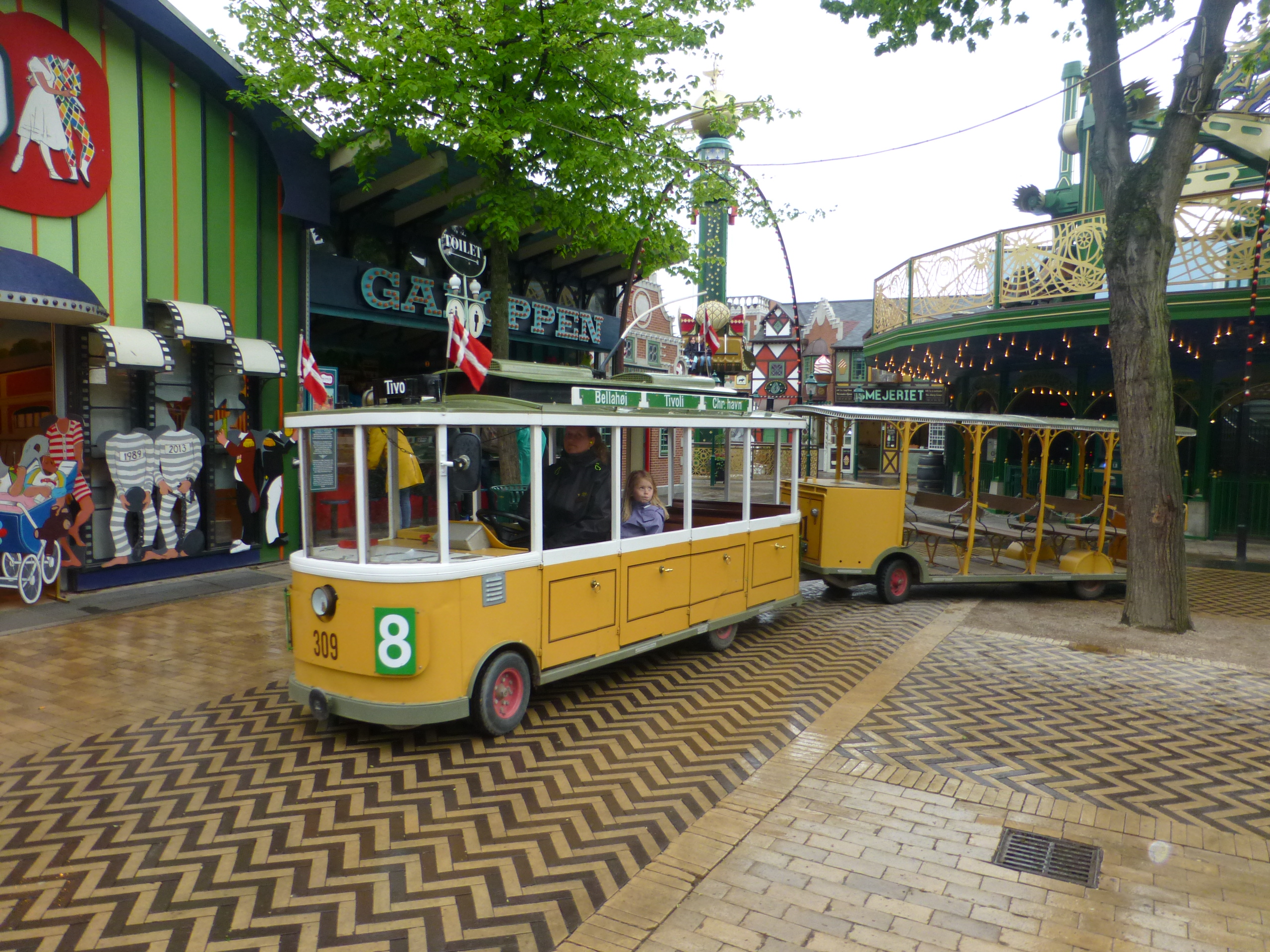 The "trams" on linie 8 in Tivoli Gardens, Copenhagen.